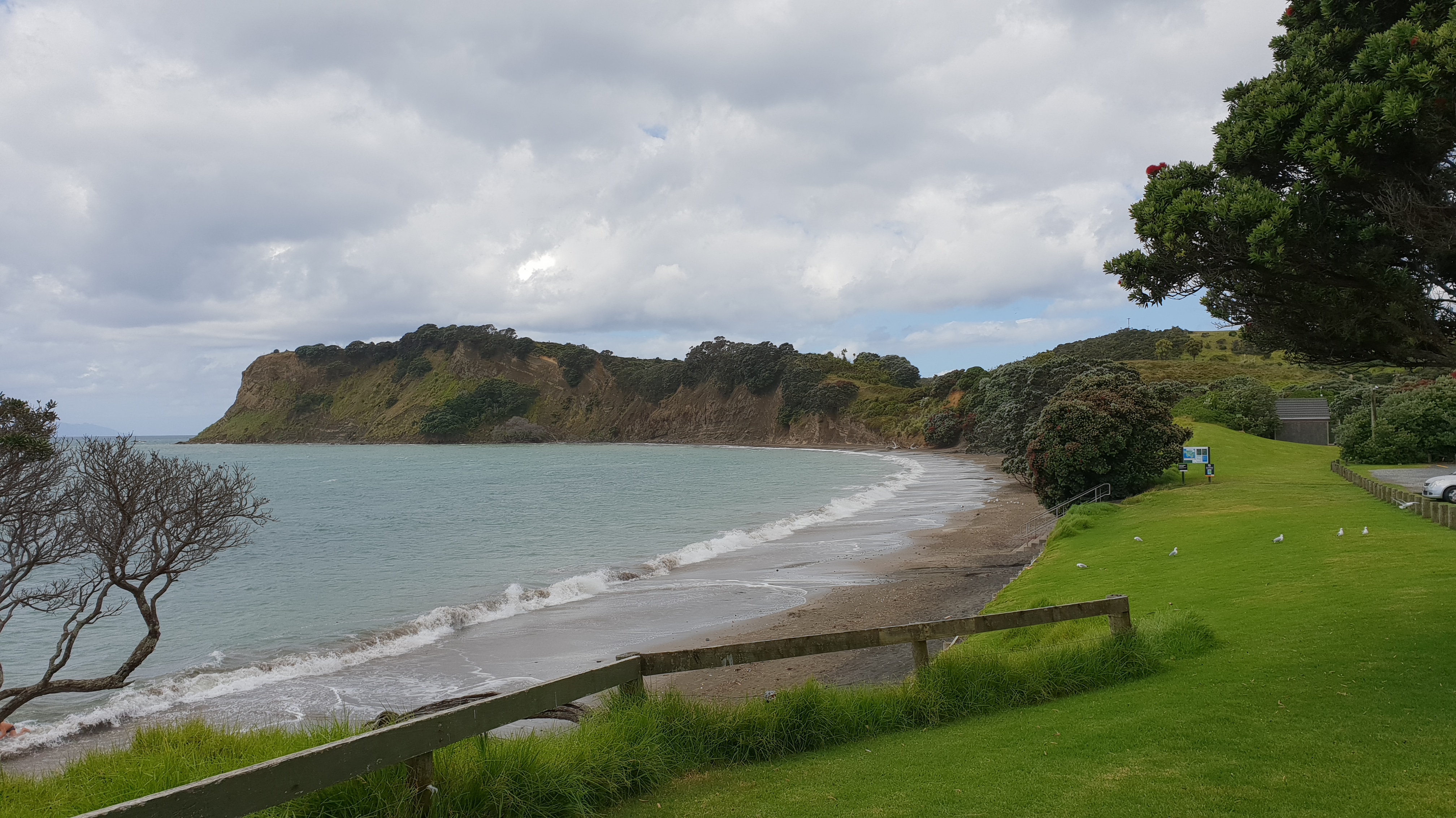 Army Bay beach in Whangaparaoa, New Zealand